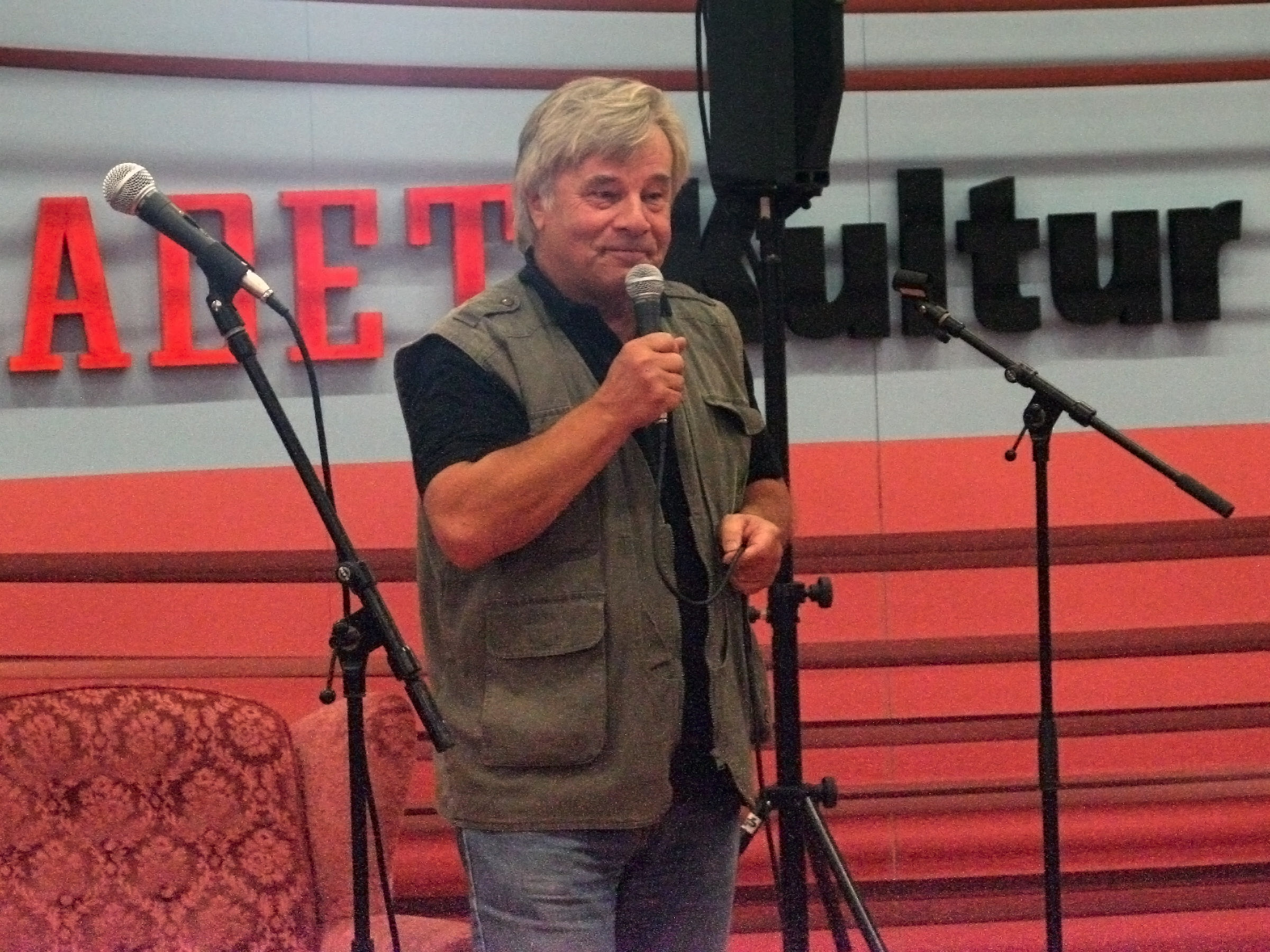 Cropped version. Swedish author Jan Guillou